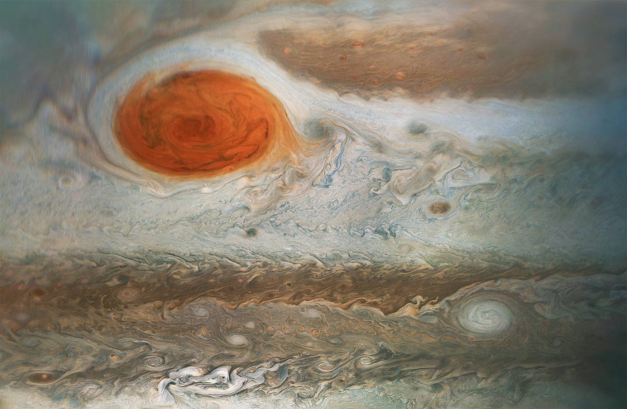 This image of Jupiter's iconic Great Red Spot and surrounding turbulent zones was captured by NASA's Juno spacecraft.